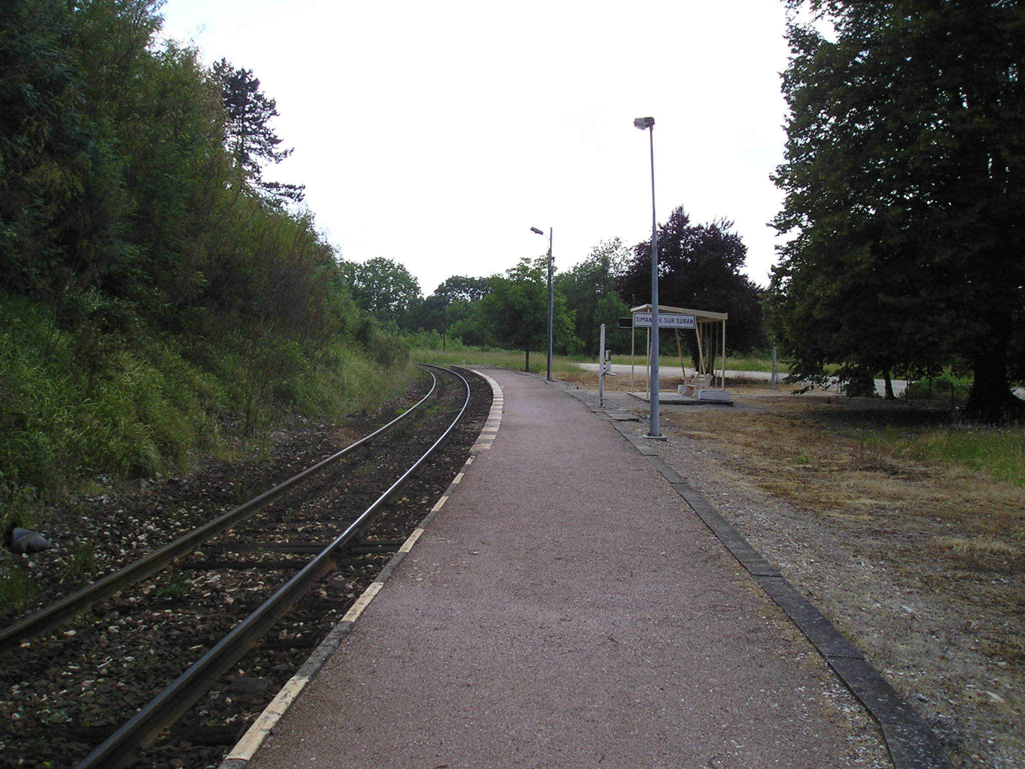 Railroad station of Simandre-sur-Suran in 2005